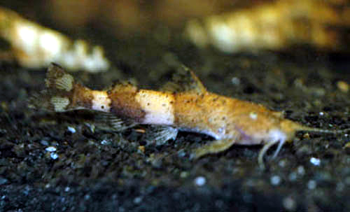 Pseudolaguvia shawi